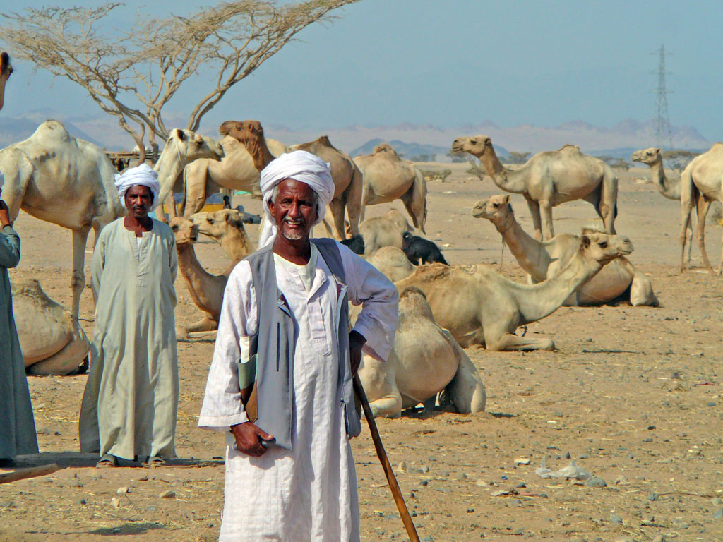 Camel market Asch-Schaltin / Southeast-Egypt (Serie 7/10)